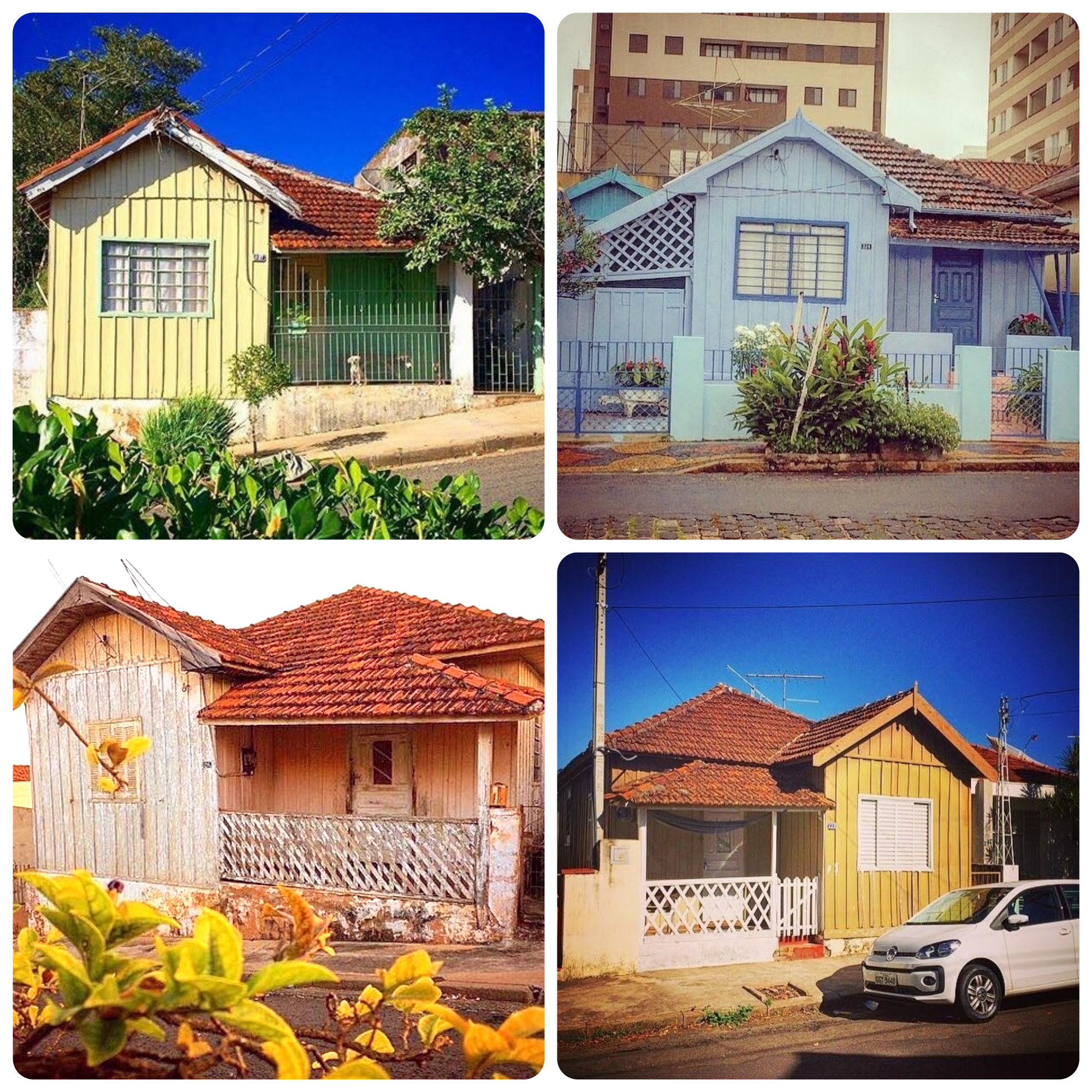 Wood Houses from of Marília/SP Brazil